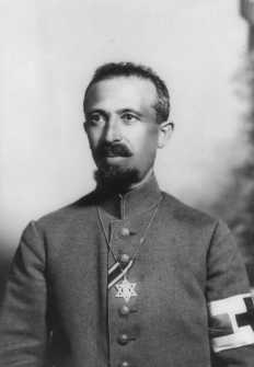 Rabbi Dr. (Arnold) Aron Tänzer, rabbi of Göppingen. High decorated military field rabbi during WWI with badge of Iron Cross on his German field-grey uniform. A brassard of Red Cross shows him as noncombatant. He wears the Magen David as religious insignium.